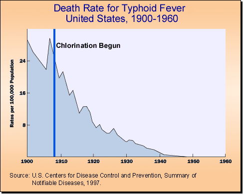 Author: Center for Disease Control (US)